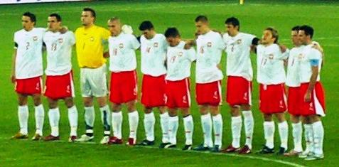 Poland national football team UEFA Euro 2008 qualifying - Poland vs Armenia